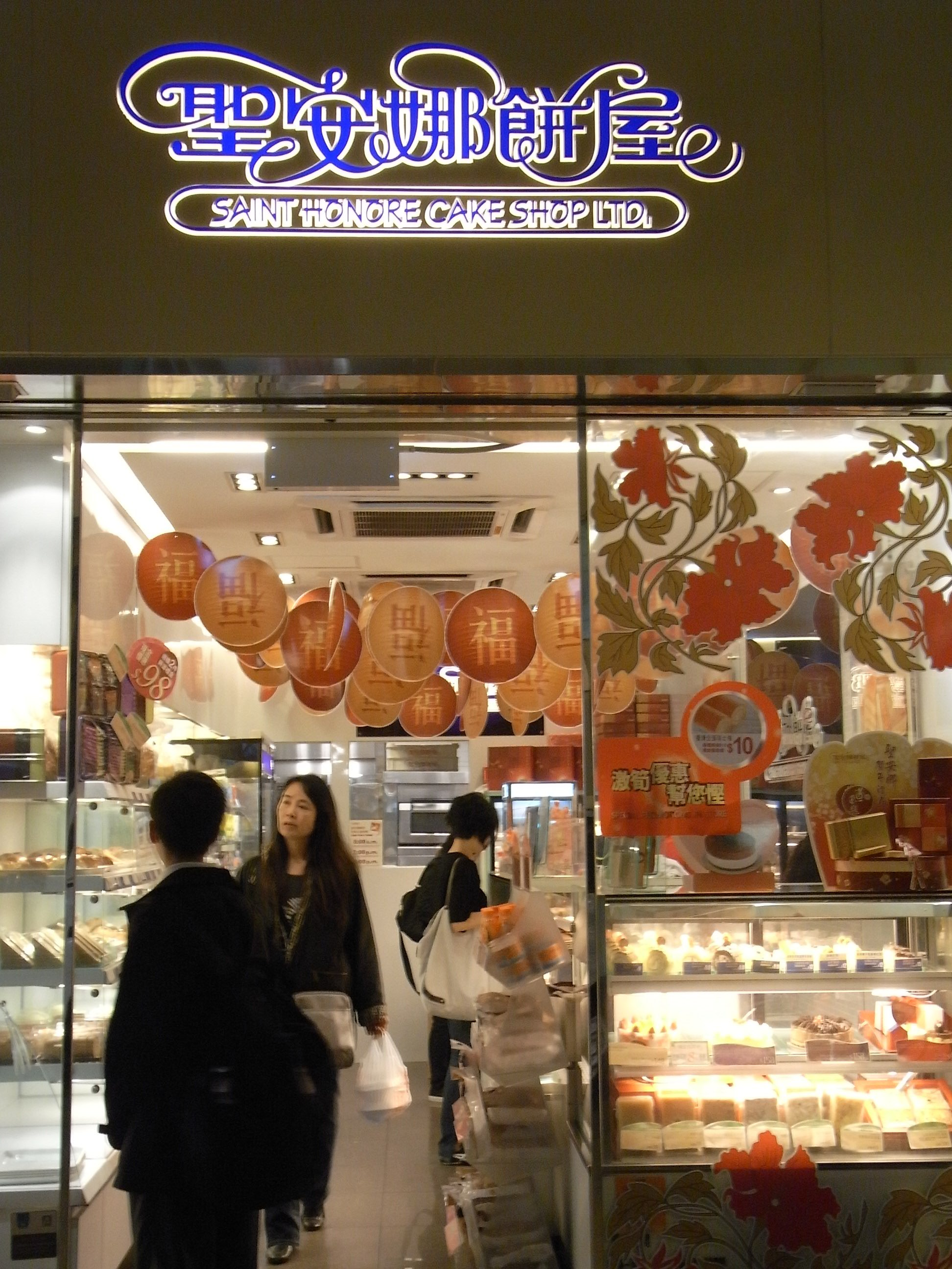 灣仔春園街